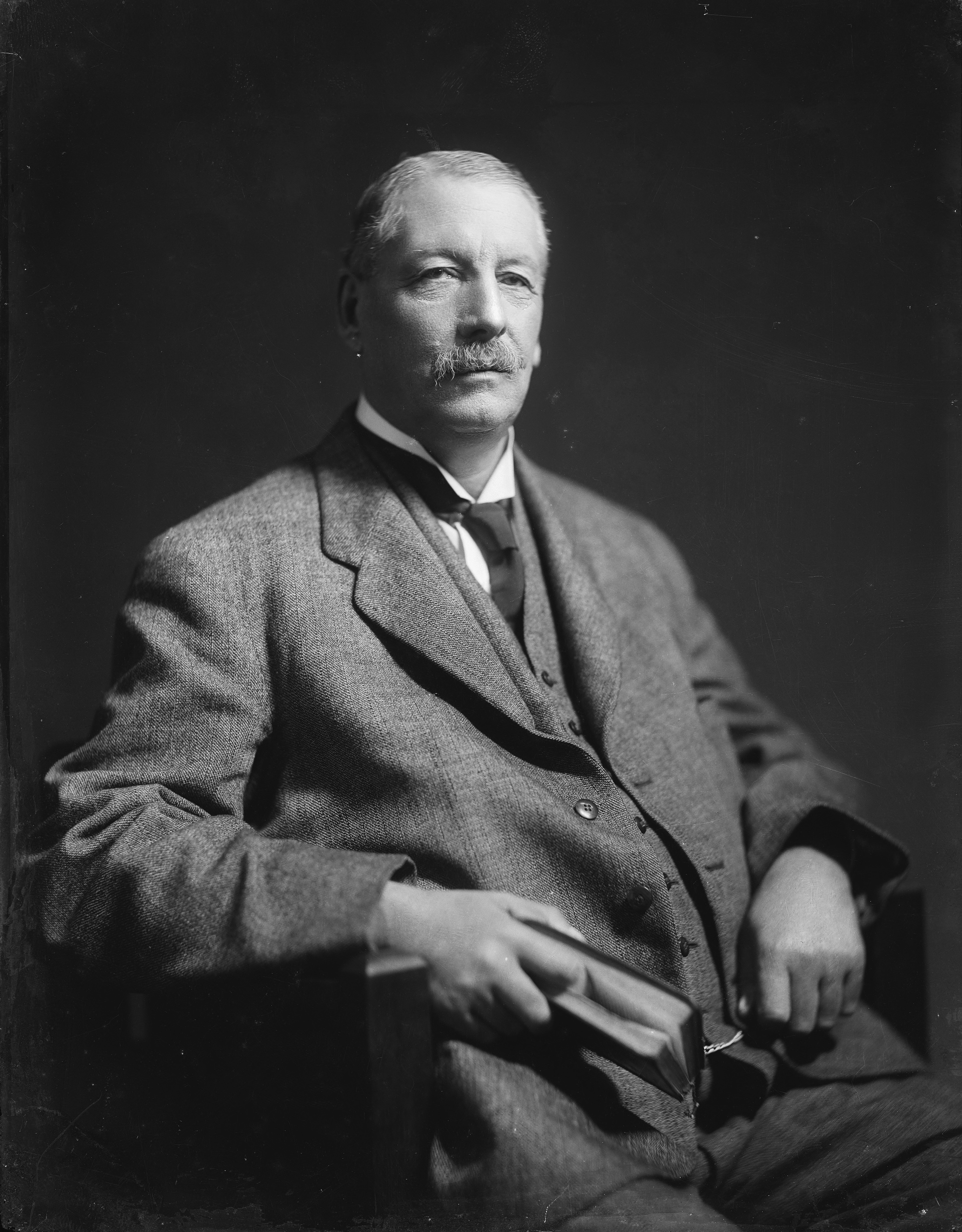 William Herbert Herries, 15 January 1921, photographed by S P Andrew Ltd.